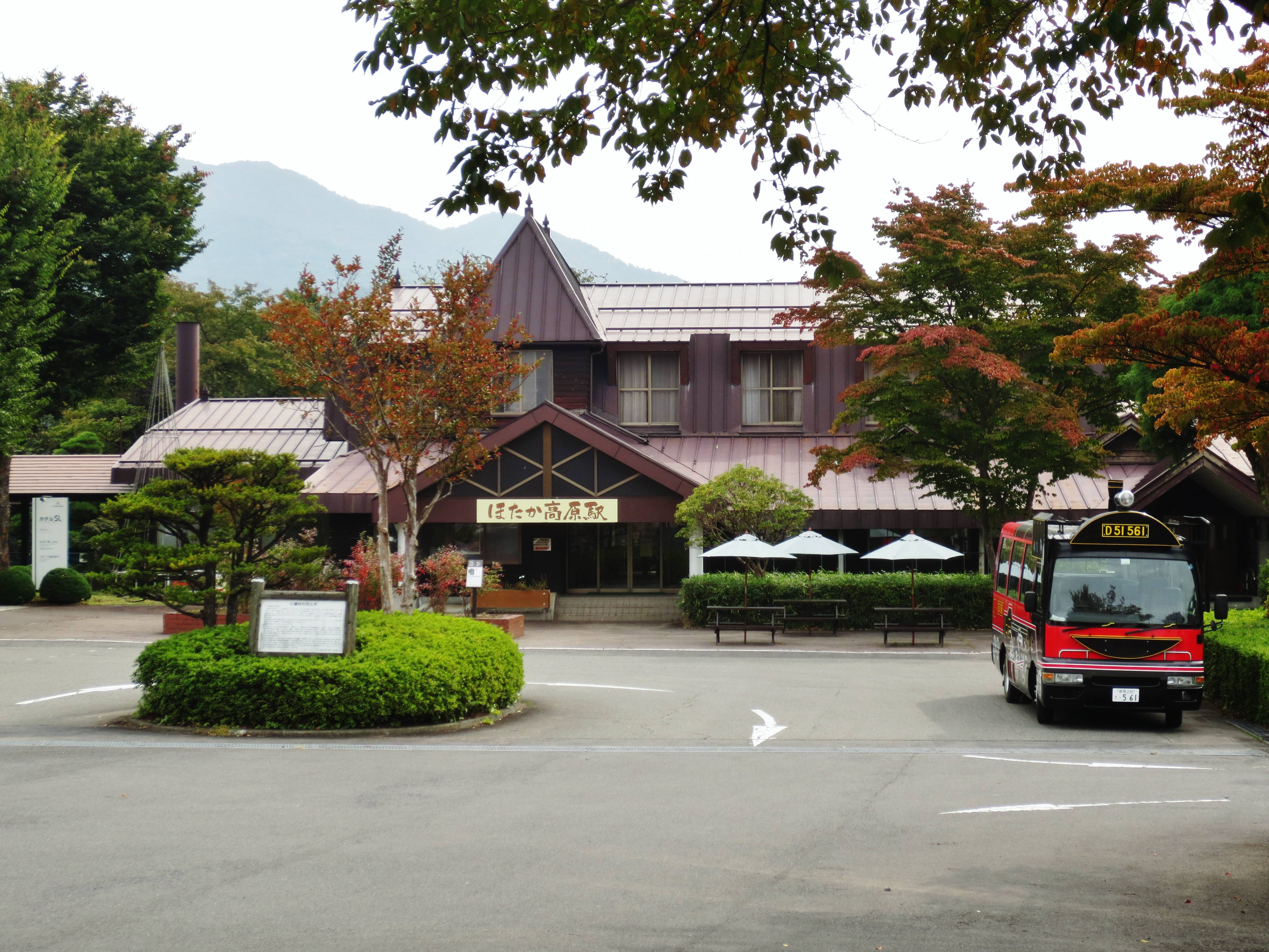 Hotaka-Kōgen Station.